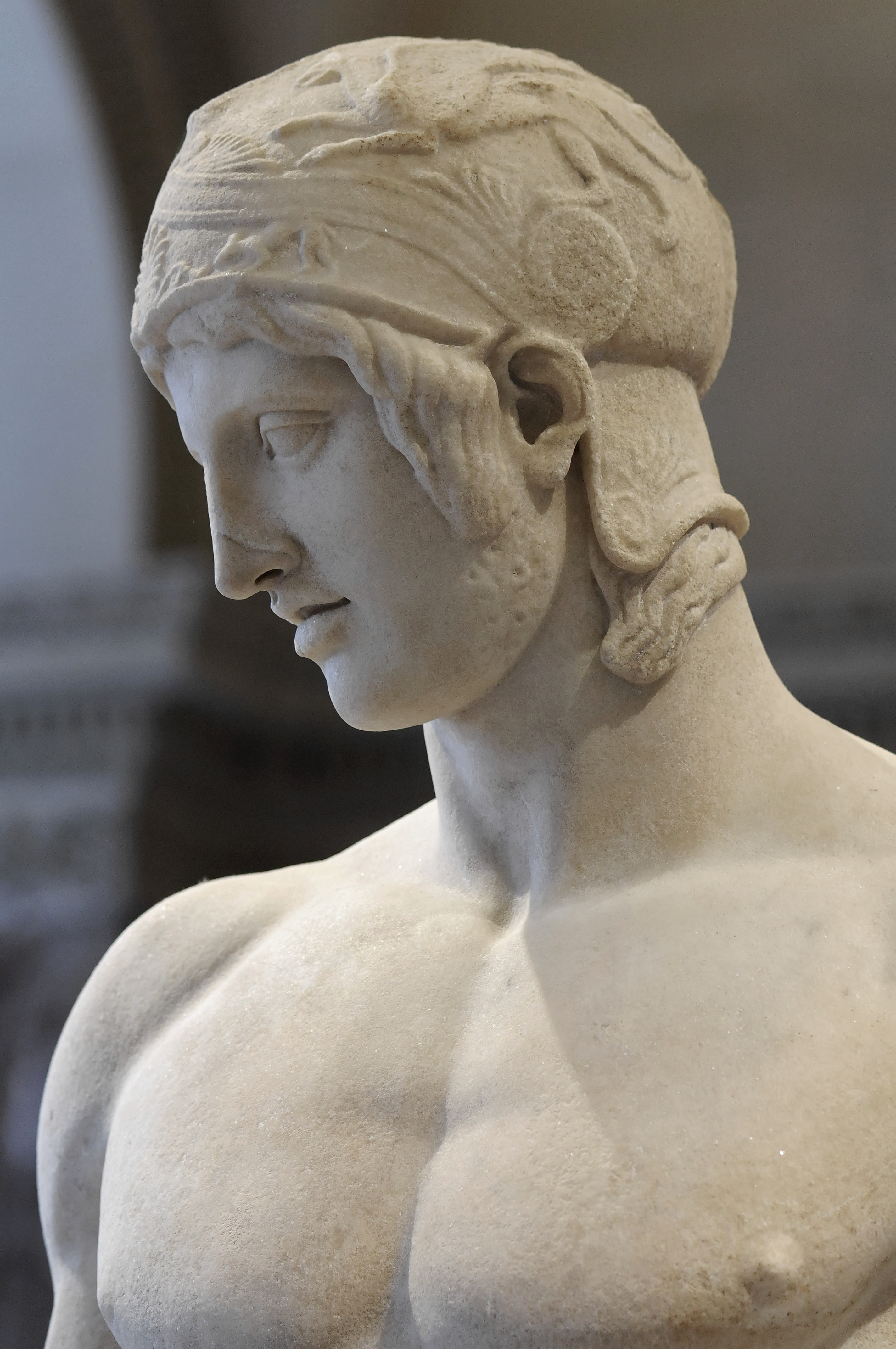 Naked, helmeted warrior holding a spear and wearing a bracelet at the right ankle, probably a representation of Ares. Free-standing statue, Roman Imperial period. From the agora in Athens.